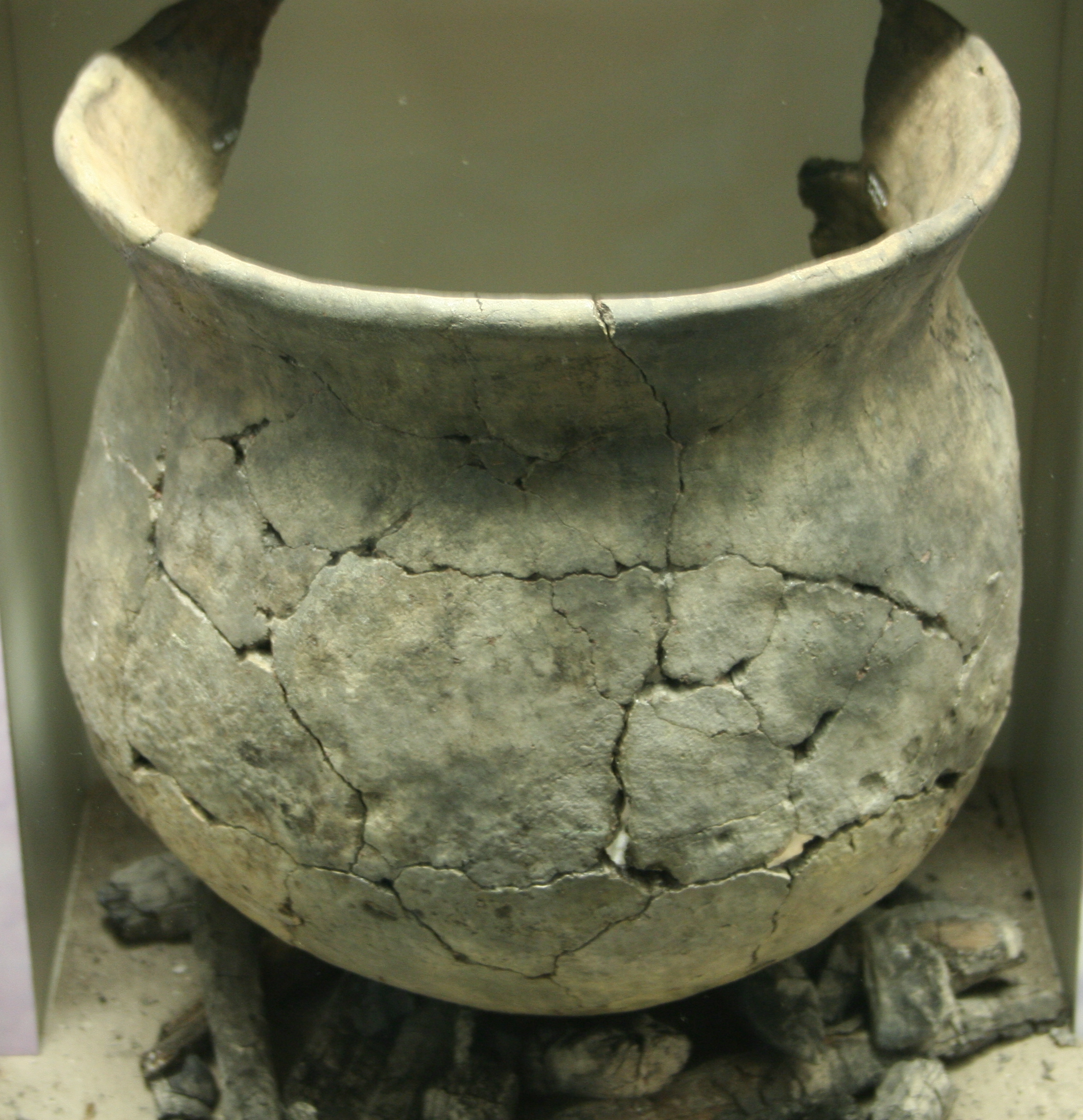 Archaeological state museum Schleswig-Holstein, Gottorf Castle